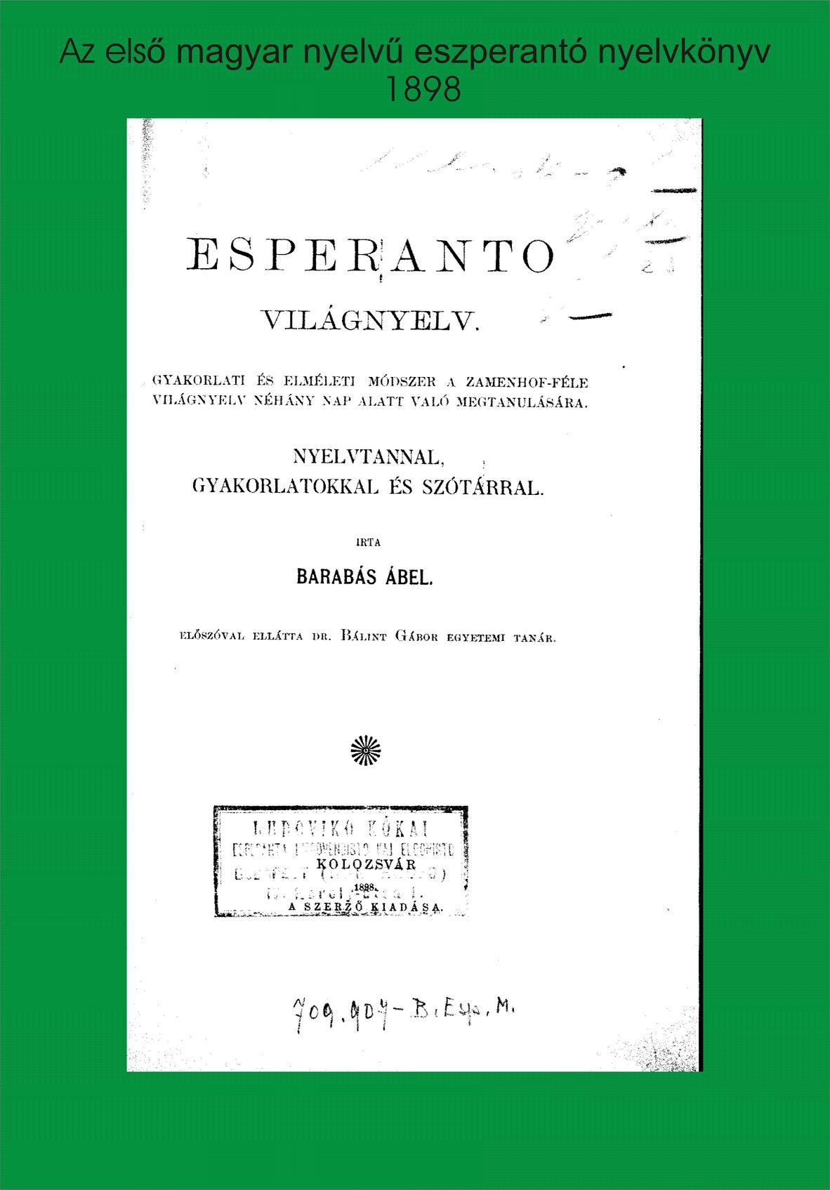 Esperanto grammar book of Ábel Barabás